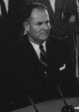 President John F. Kennedy and Others at the Signing of Bill H.J. 225 Public Law 87328, the Interstate Federal Compact for the Delaware River Basin